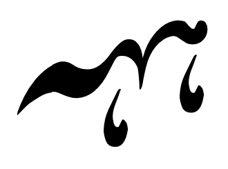 These three ہ letters are written in Nastaliq and connected to each other. Each one has a different form depending on its position in the word.